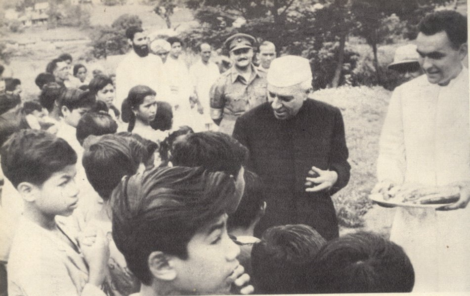 Jawaharlal Nehru hands out sweets to students at Nongpoh in Meghalaya